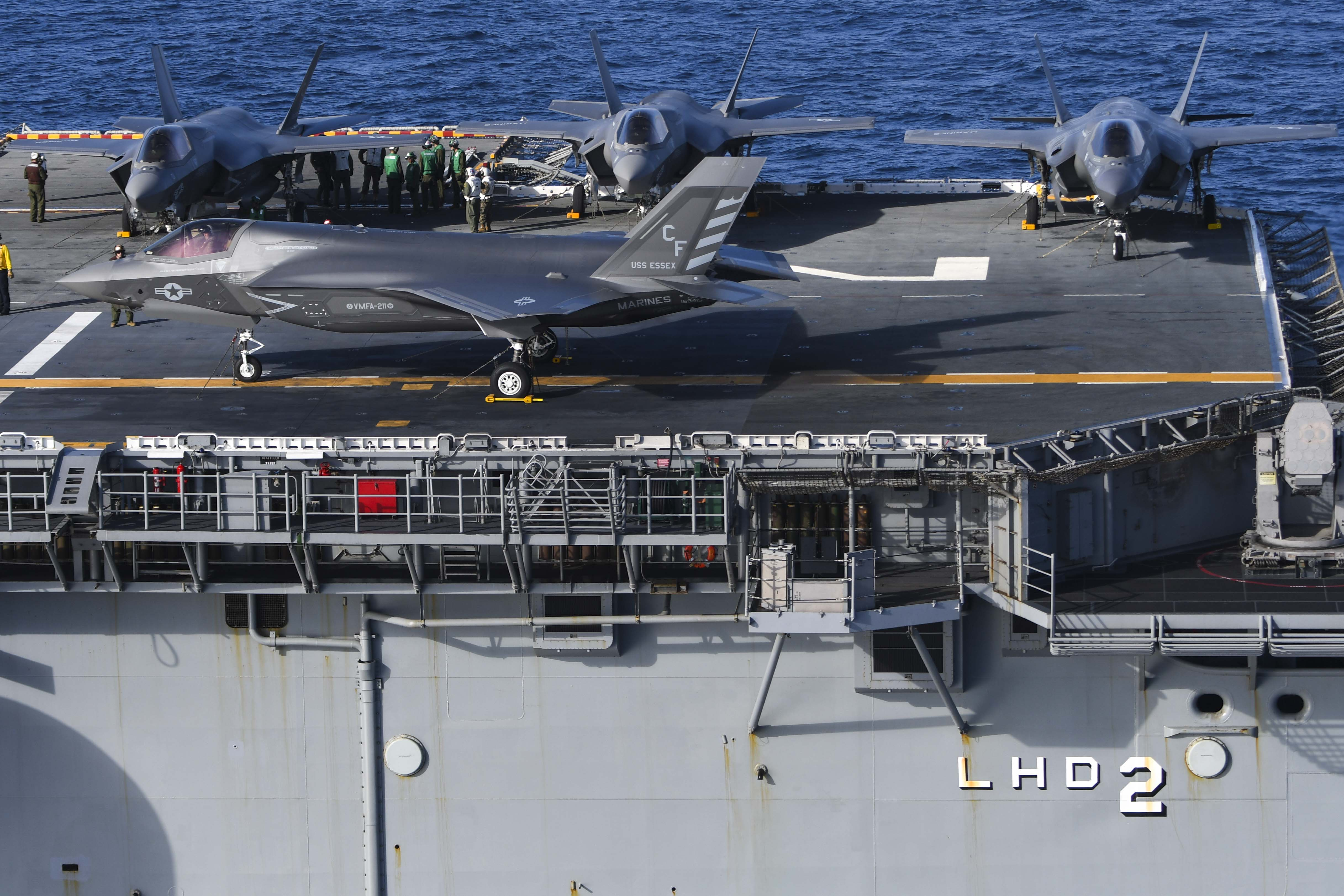 A U.S. Marine Corps Lockheed Martin F-35B Lightning IIs of Marine Fighter Attack Squadron 211 (VMFA-211) "Wake Island Avengers" sit on the flight deck of the amphibious assault ship USS Essex (LHD-2) during an amphibious squadron and Marine expeditionary unit (MEU) integration (PMINT) exercise in the Pacific Ocean on 28 March 2018. PMINT is a training evolution between an Amphibious Ready Group and a MEU, which allows sailors and Marines to train as a cohesive unit in preparation for their upcoming deployment.